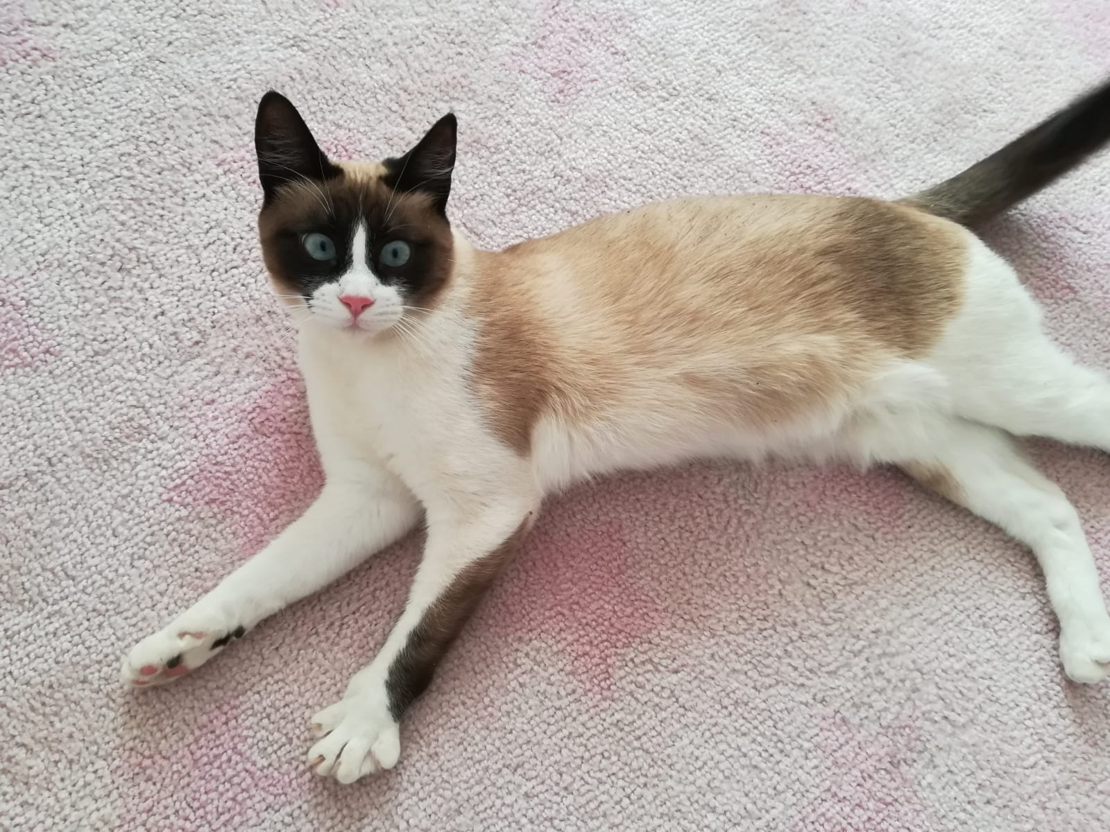 Snowshoe female kitten, 8 months old.